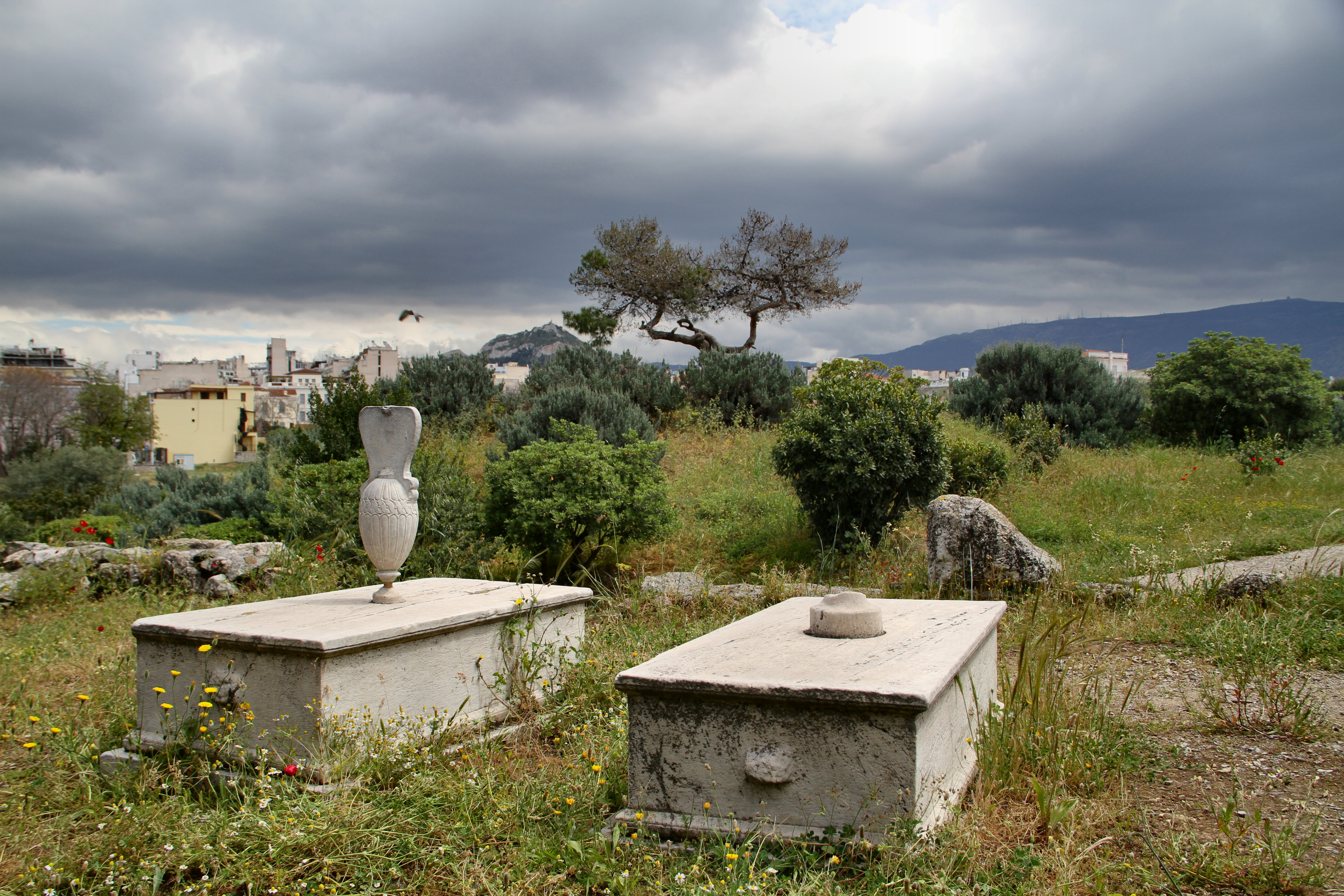 Gravestones (trapeza) and loutrophoroi decorating tombs at the Kerameikos cemetery of Athens, Greece, April 2011